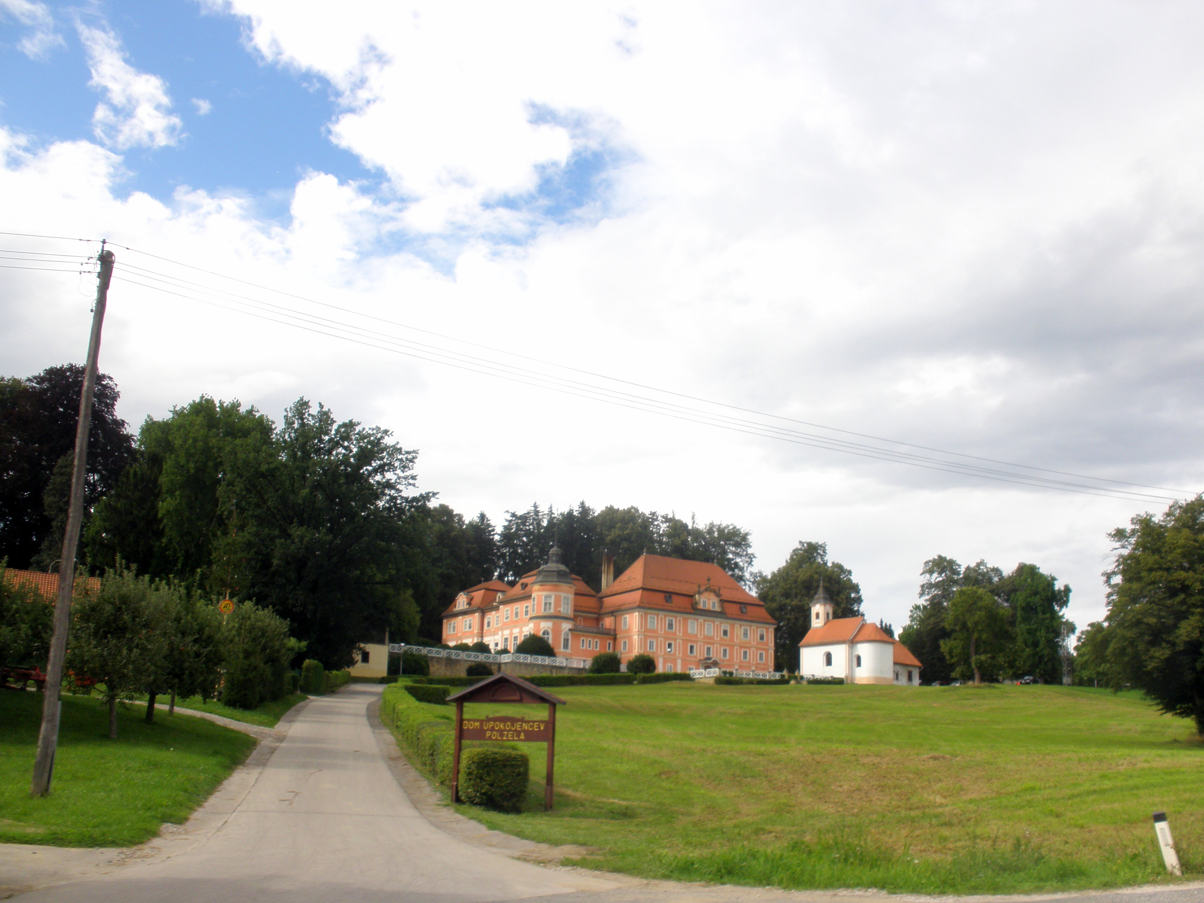 Šenek Mansion and the castle chapel in Polzela, northeastern Slovenia.